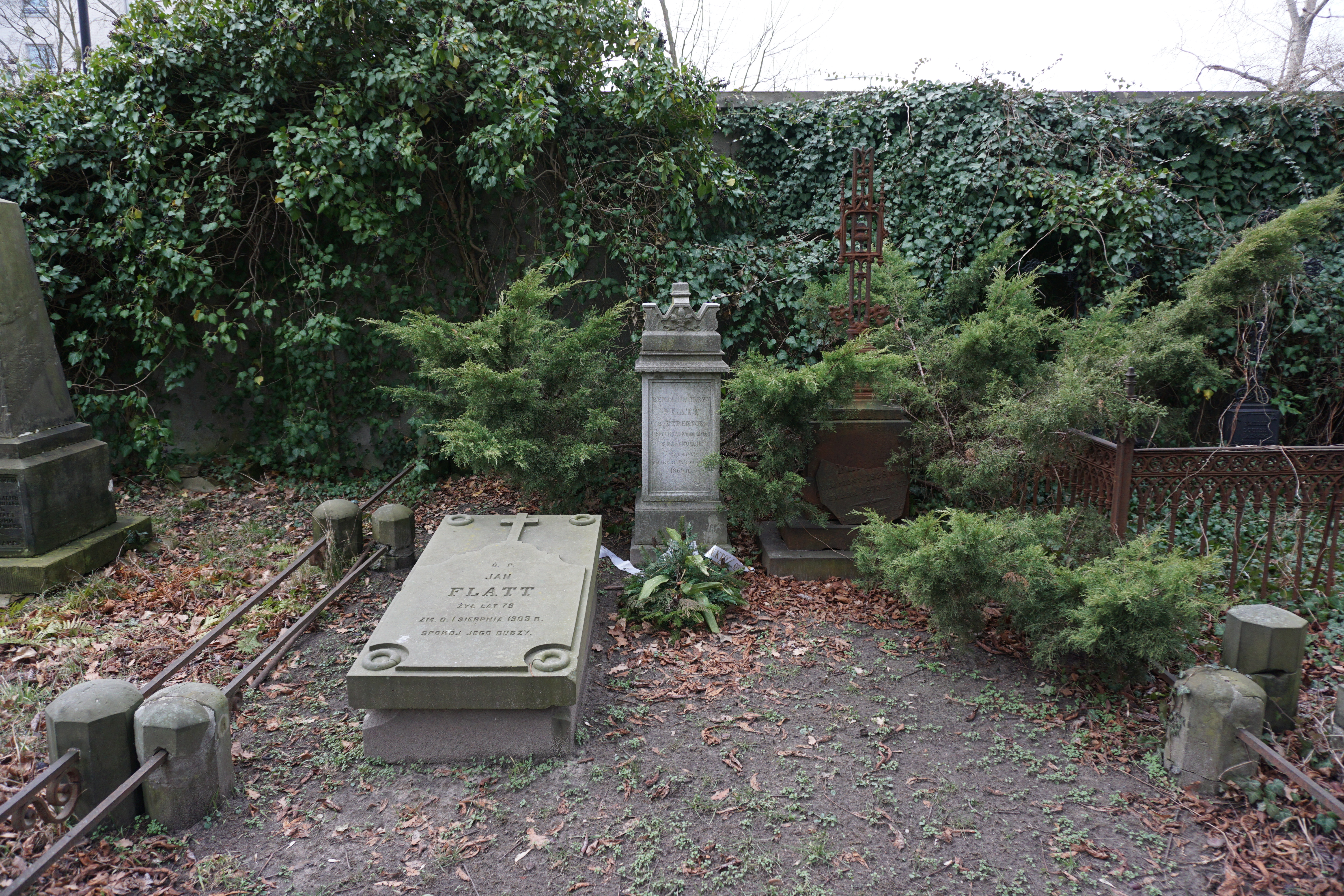 The grave of Jerzy Benjamin Flatt at the Evangelical-Augsburg cemetery in Warsaw (avenue 1, grave 51)